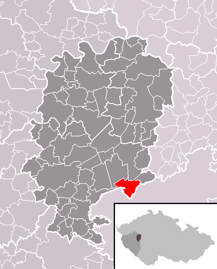 Location of Strašice municipality within Rokycany District and within identical administrative area of Rokycany as a Municipality with Extended Competence.